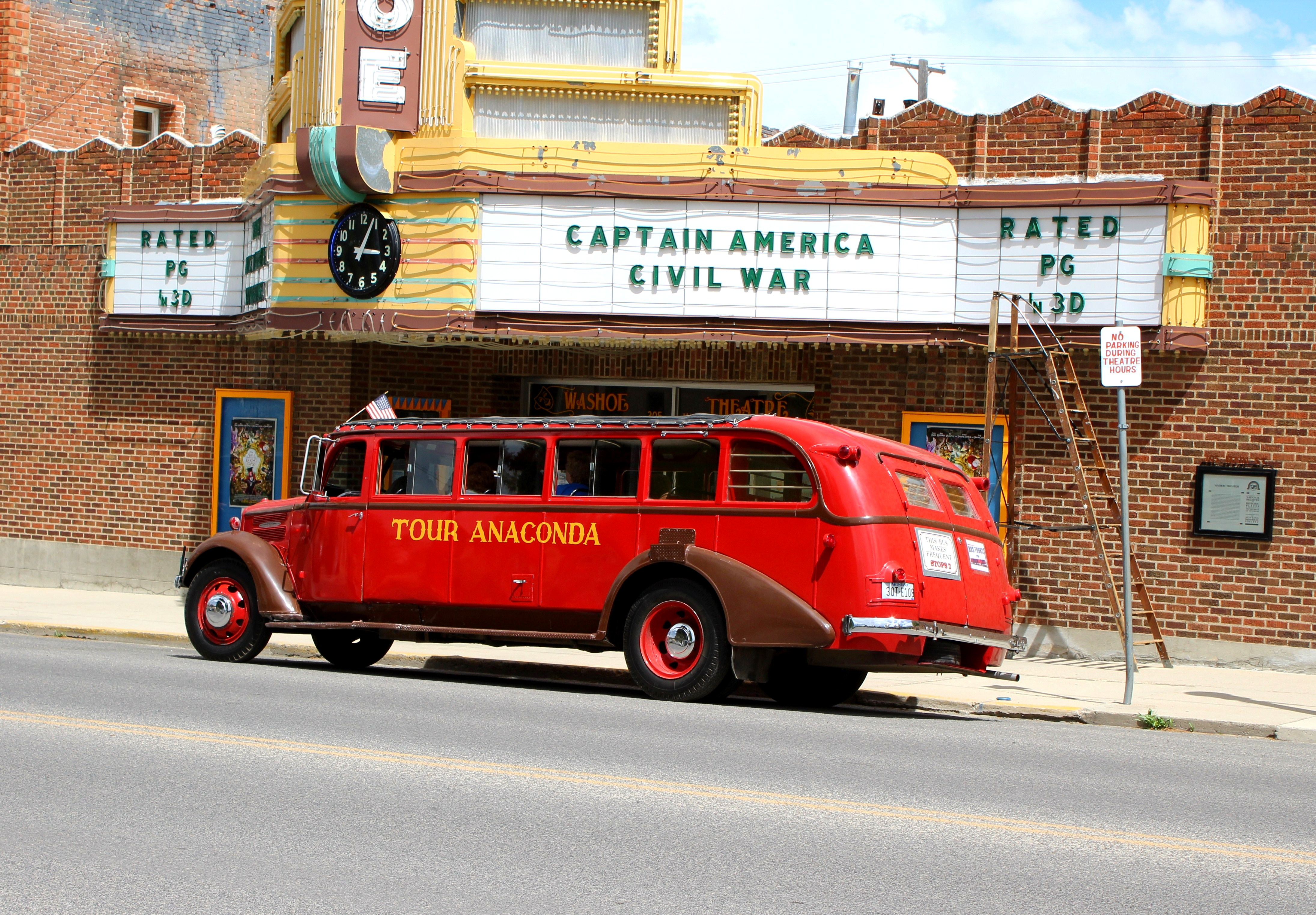 A White tour bus is stopped in front of the Washoe Theater in Anaconda, Montana. The theater is one of the best surviving examples of art deco architecture.